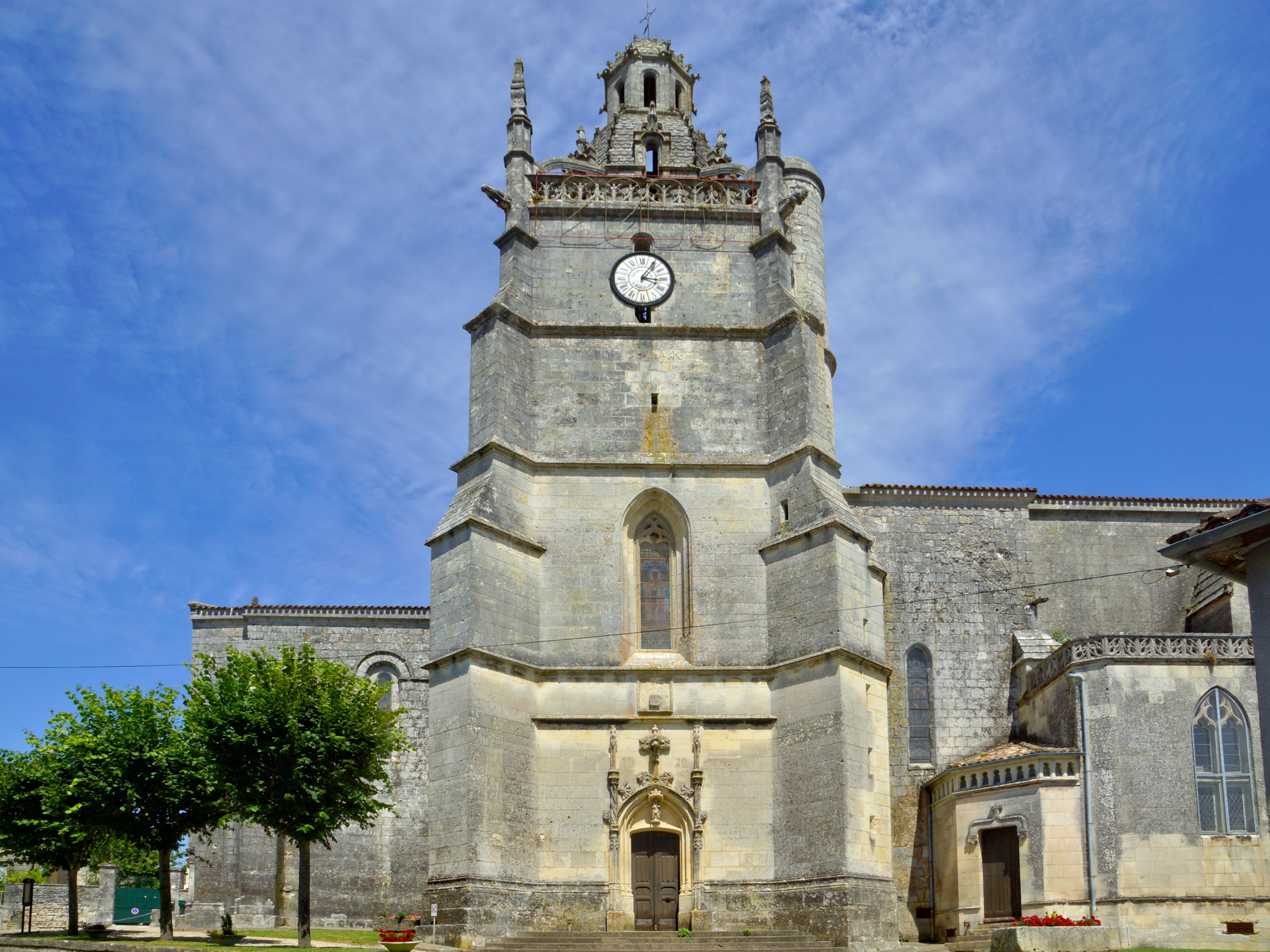 Catholic Church Saint- Fortunat from the 12th century in Saint-Fort-sur-Gironde in France - Foto Wolfgang Pehlemann DSC08753